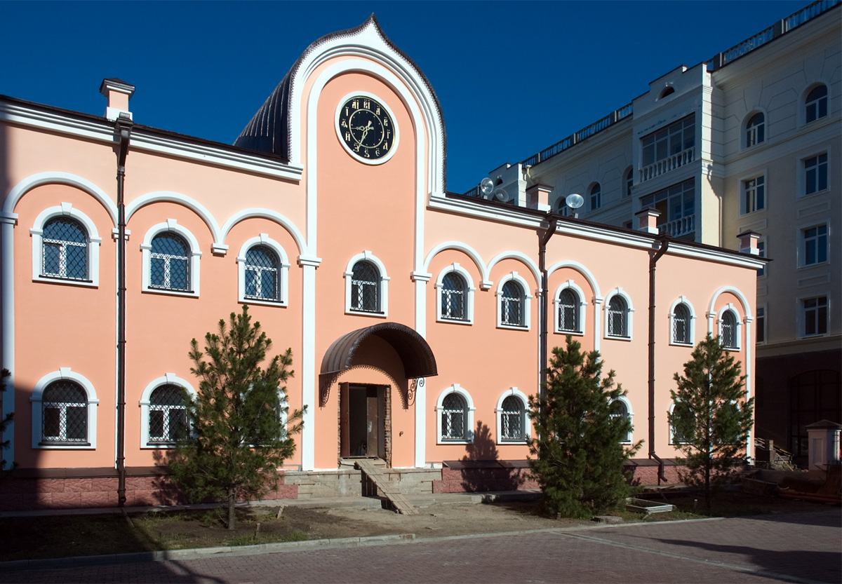 музей Томской духовной семинарии